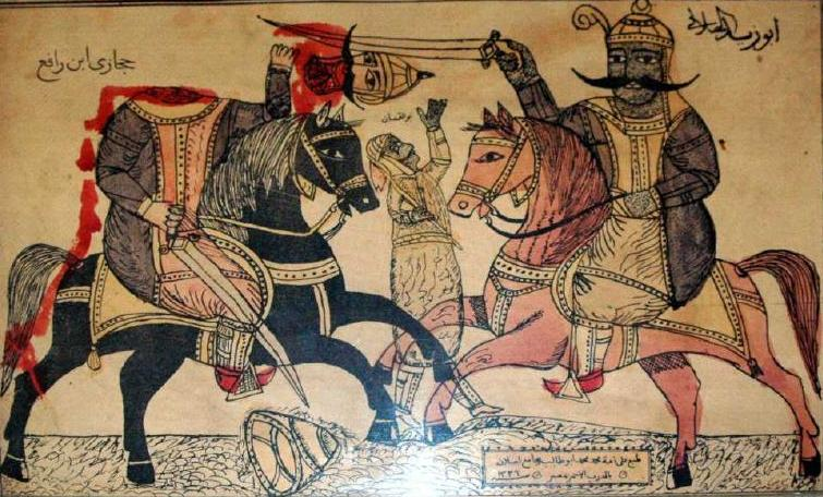 A tattooing pattern depicting Arab hero Abu Zayd al-Hilali (right) chopping off the head of Hegazi ibn Rafe' (left). The inscription at the bottom indicates that the pattern was printed in 1326 H (1908 in the Gregorian calendar) in Cairo's Darb al-Ahmar district under the auspices of Muhammad Muhammad Abu Taleb. The original uploader of this image on Flickr stated that it came from the Cairo Anthropological Museum. However, there is no such museum in Cairo. The uploader most likely intended to refer to the Ethnological Museum, which is affiliated with the Egyptian Geographic Society.